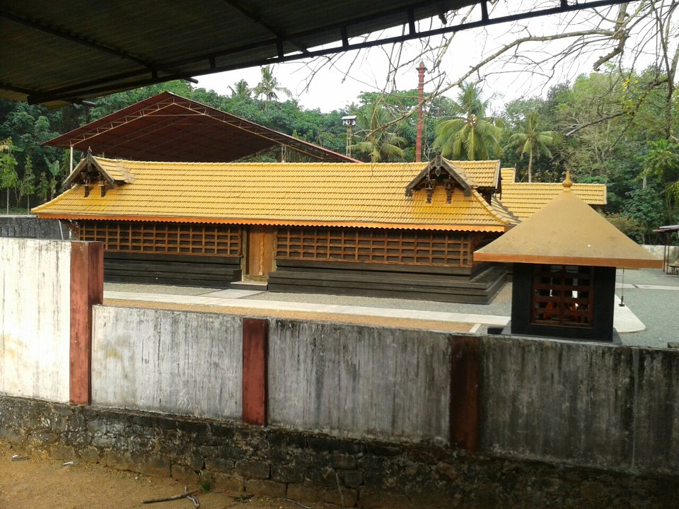 this is a temple